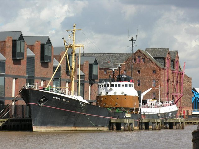 Preserved trawler 'Arctic Corsair', Hull, East Riding of Yorkshire, England.'Arctic Corsair' lies at the rear of the High Street and is the last example of the traditional side-winder deep-sea trawler, she was built at Beverley in 1960 and like many others will have passed this spot on her first voyage down the River Hull to salt water.